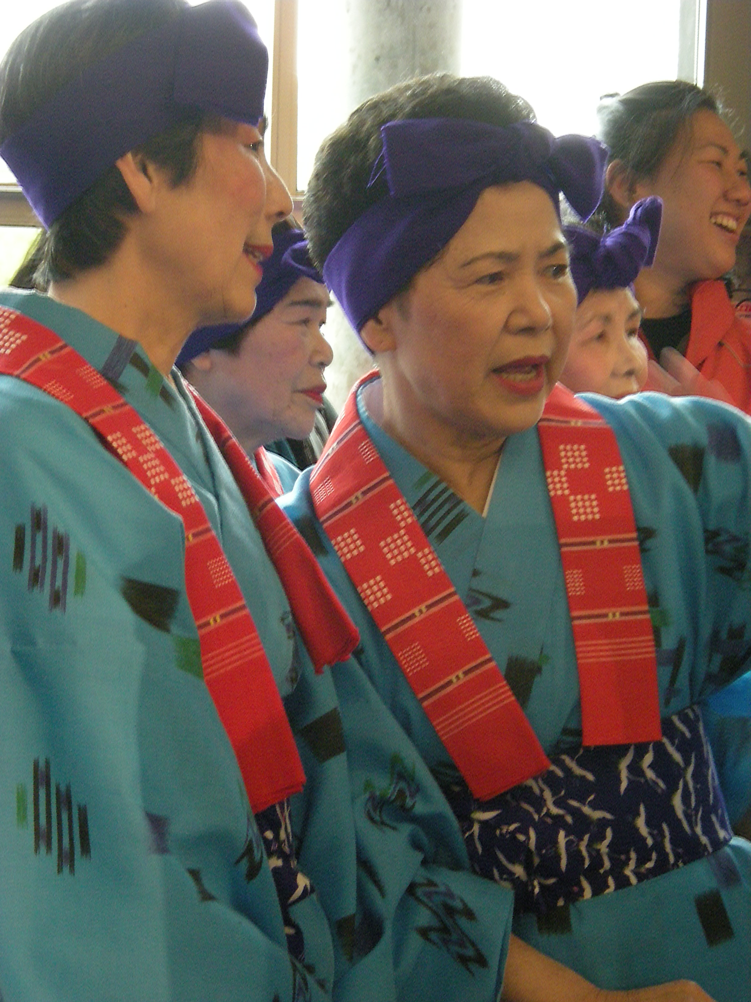 Dancers before performance at 2008 Cherry Blossom Festival, Seattle Center, Seattle, Washington.